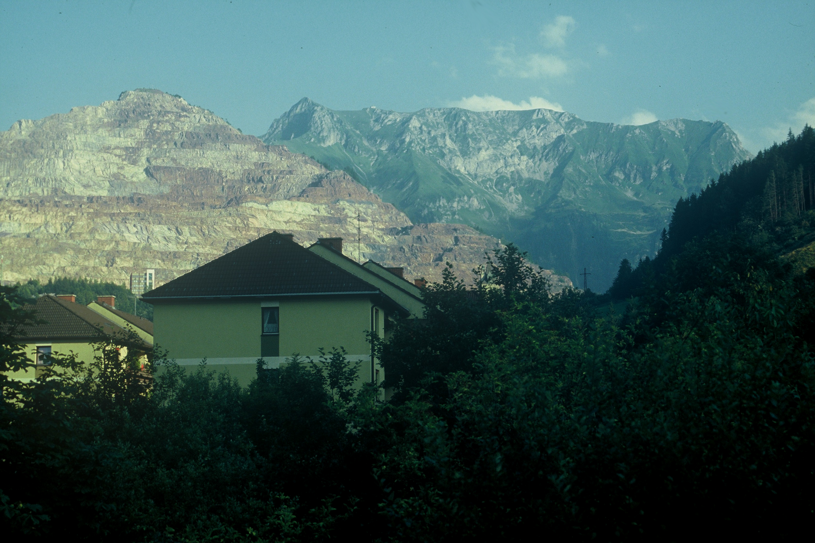 Eisenerzer Reichenstein from Eisenerz, left side the Erzberg